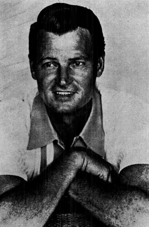 Trade ad for Claude King's single "Catch A Little Raindrop".To better adapt it to his respective Wikipedia article, the ad was cropped and cleaned in a graphics editing program. The original can be viewed on the source below.